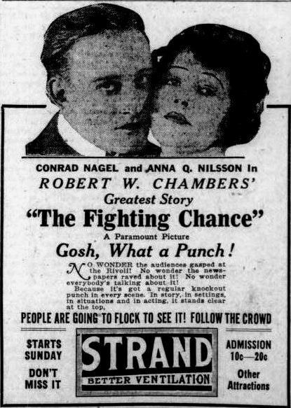 Newspaper advertisement for the American film The Fighting Chance (1920) with Conrad Nagel and Anna Q. Nilsson, on page 7 of the January 21, 1922 Duluth Herald.